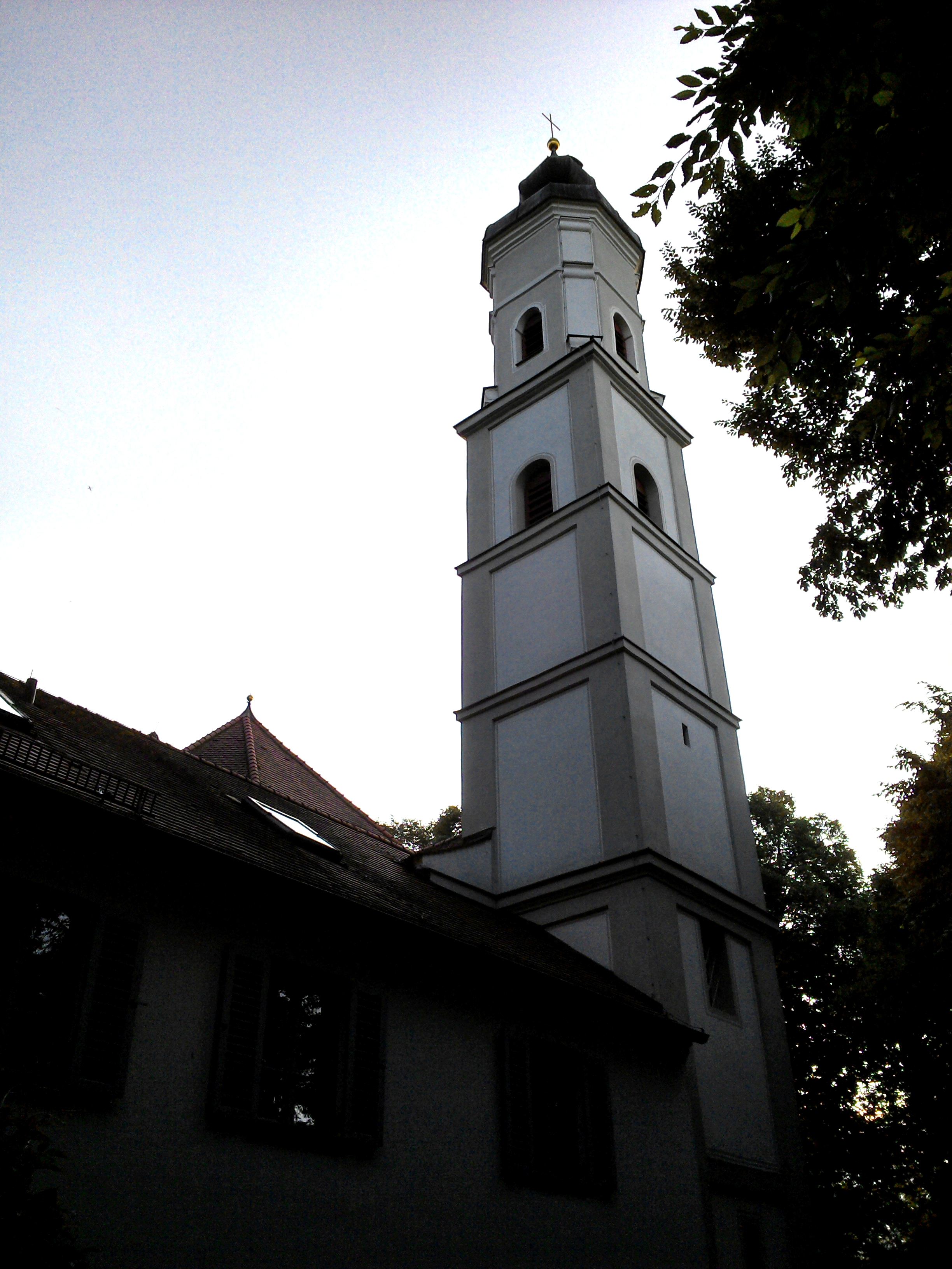 Katholische Schlosskapelle St. Anna in Kranzberg-Thalhausen.